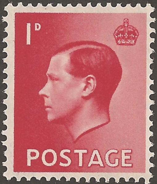 Stamp of the United Kingdom, issued September 1936, one penny red figuring King Edward VIII.